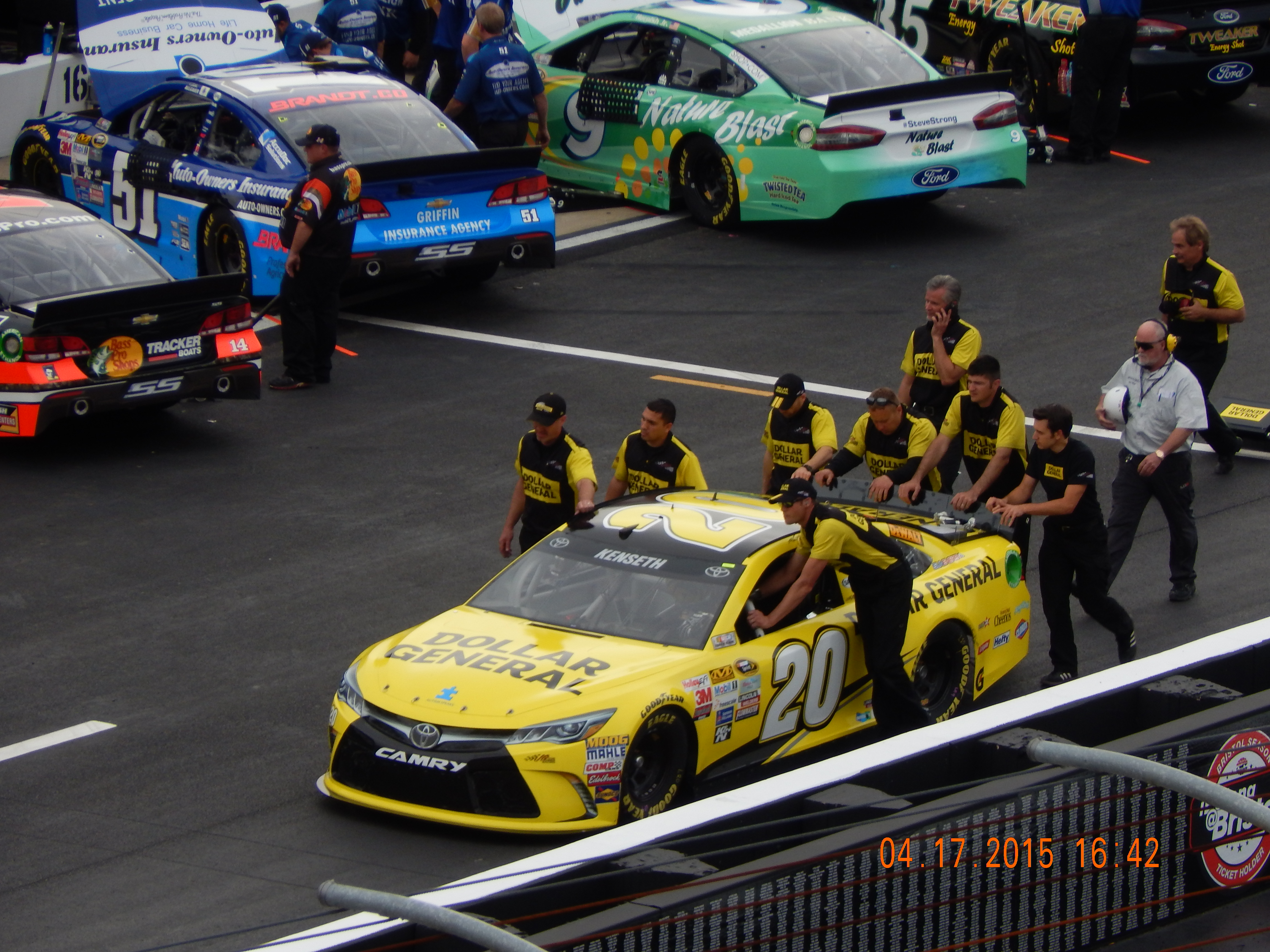 Matt Kenseth's car being pushed down pit road after winning the pole for the Food City 500.